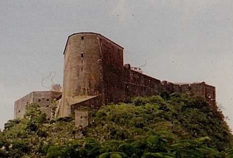 The famous citadelle of Haiti ordered to be built by the "Emperor" of the land